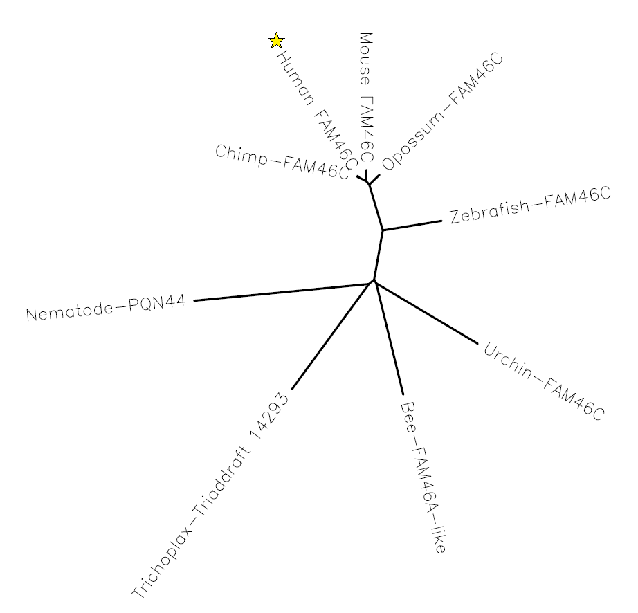 An unrooted phylogenetic tree generated by CLUSTALW at the SDSC Biology Workbench. The starred item is homo sapiens FAM46C, with orthologs for various species plotted according to CLUSTALW alignment.